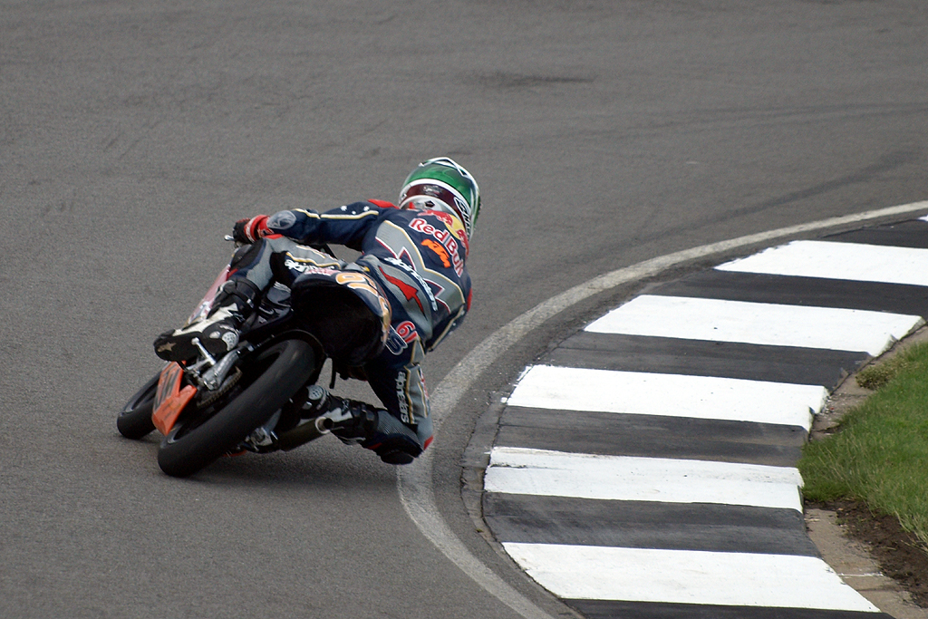 Arthur Sissis racing in the Red Bull Rookies Cup at Donington Park in 2009.